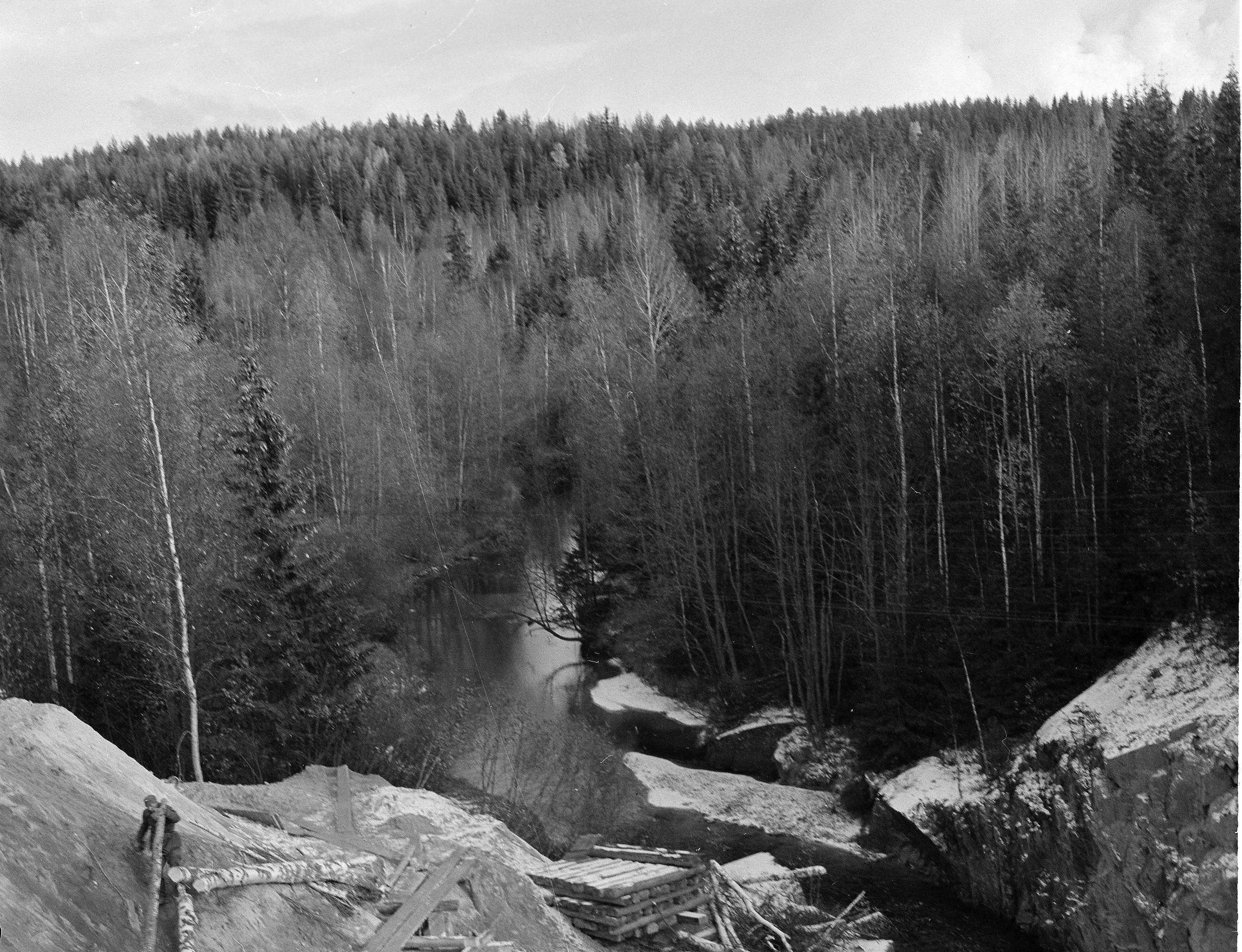 Ihalanjoen sillankorjaustöistä.